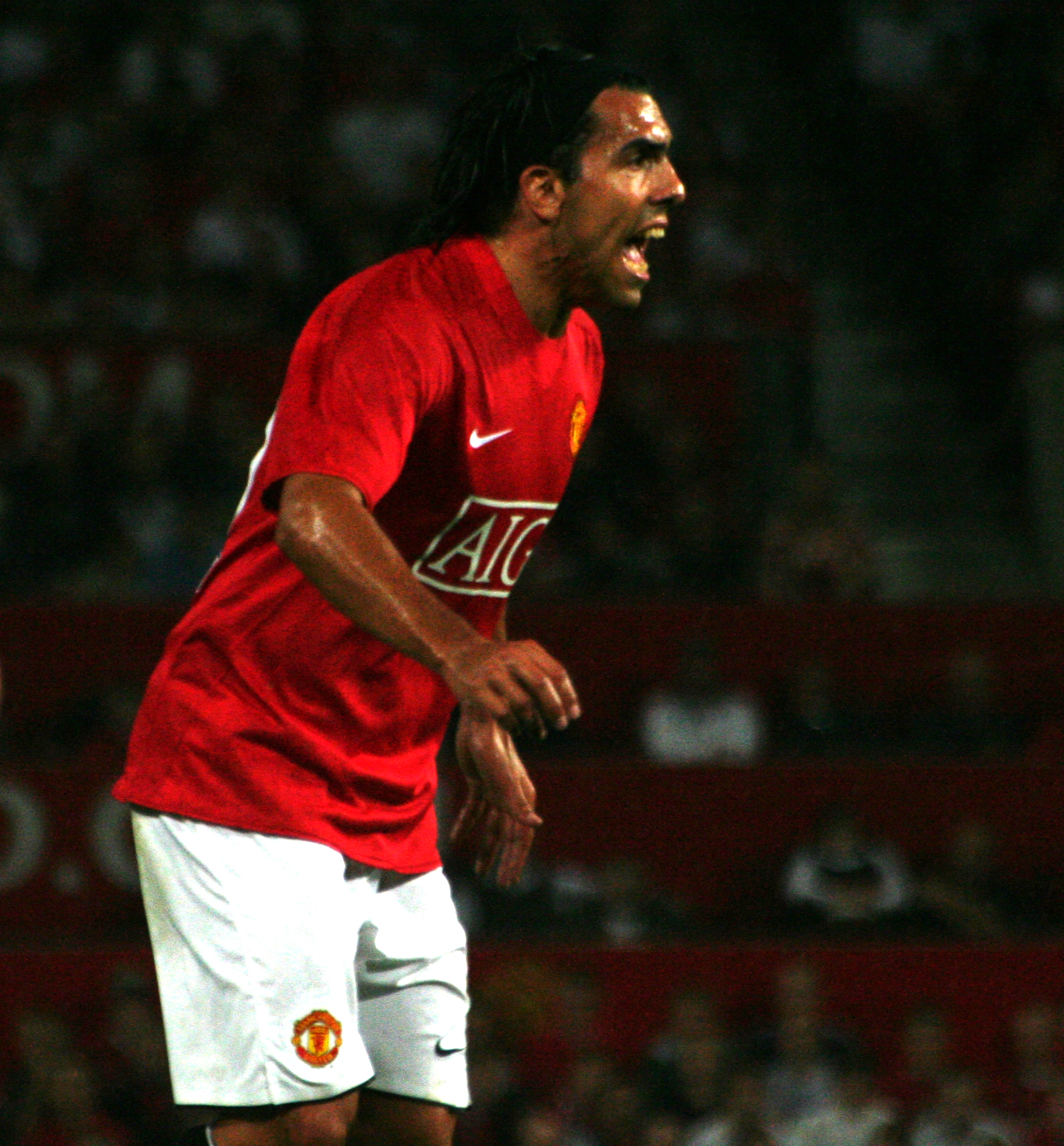 Carlos Tévez